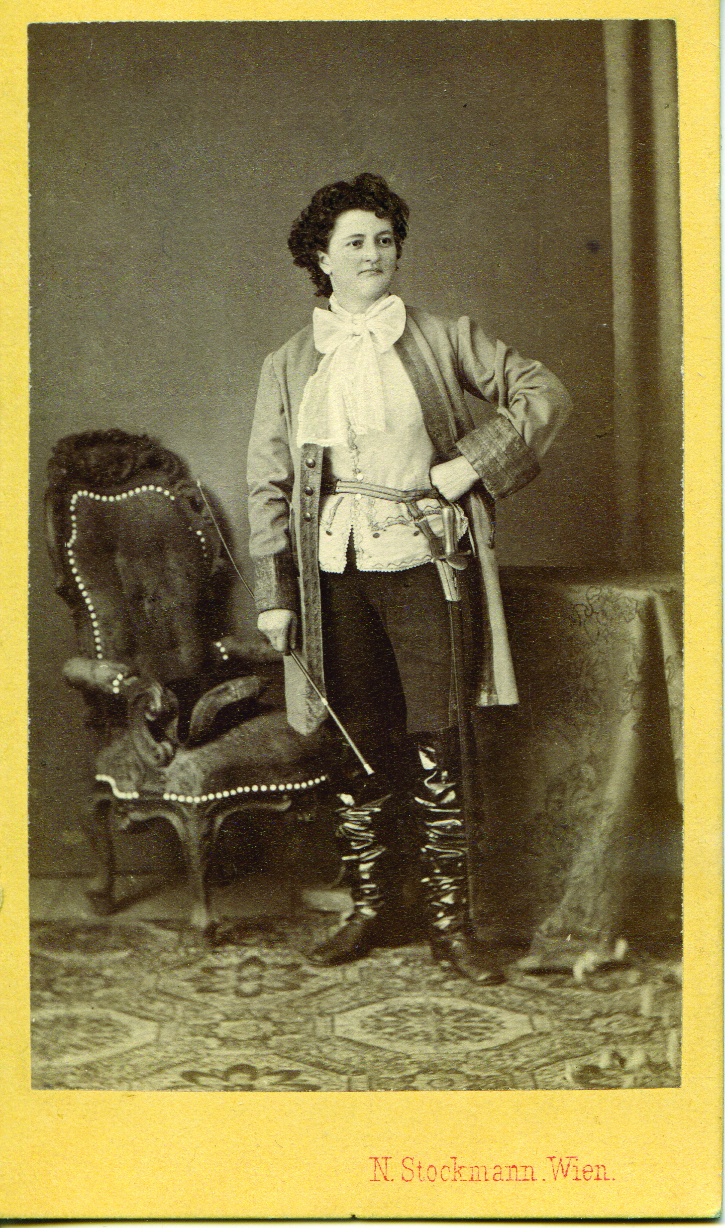 Draginja Draga Ružić (1834-1905) in costume of colonel in "Memoirs of a Hussard Colonel" by Joseph Mélesville (Photo Studio by Nicholas Stockmann - Vienna, Studio in Pančevo, 1882) Srpski (latinica): Draginja Draga Ružić (1834-1905) u kostimu pukovnika u predstavi "Pukovnik od 18 godina", Žozefa Melvila (Atelje Nikolasa Štokmana - Beč, filijala Pančevo, 1882) Српски (ћирилица): Драгиња Драга Ружић (1834-1905) у костиму пуковника у представи "Пуковник од 18 година", Жозефа Мелвила (Атеље Николаса Штокмана - Беч, филијала Панчево, 1882)